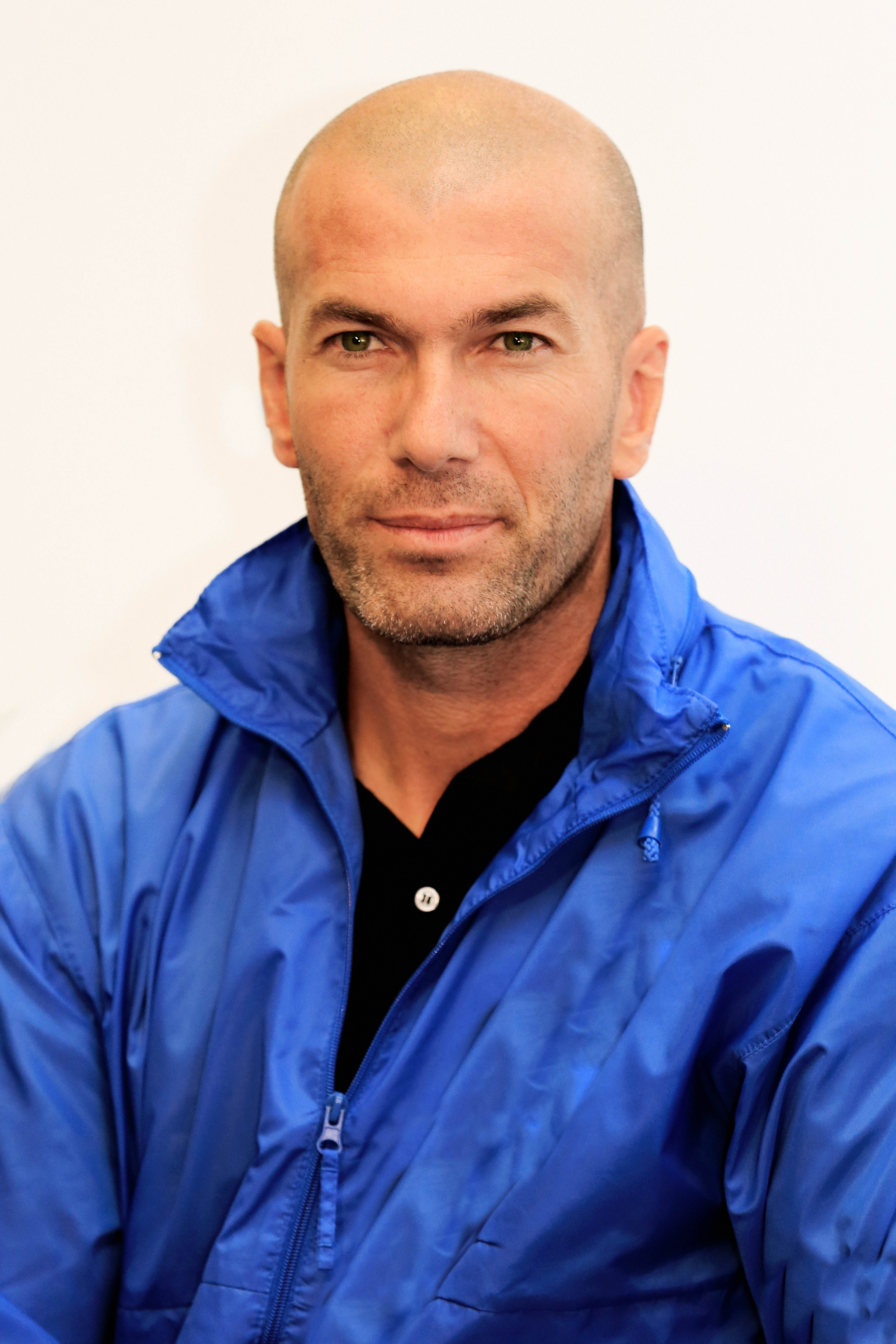 Portrait